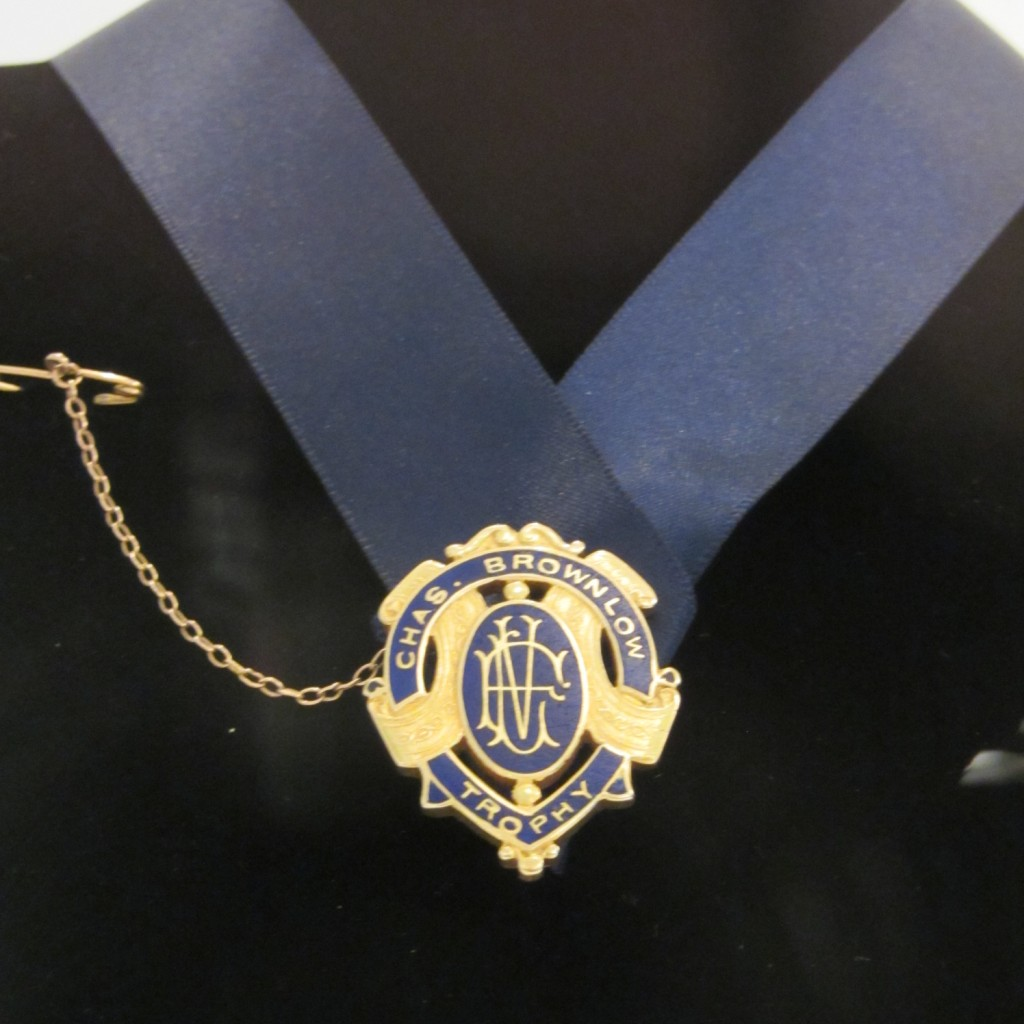 The first Brownlow Medal awarded to Edward "Carji" Greeves in 1924. It is unique among Brownlow Medals in that this is the only one that is made of solid gold. It is on loan to Geelong by its current owner.